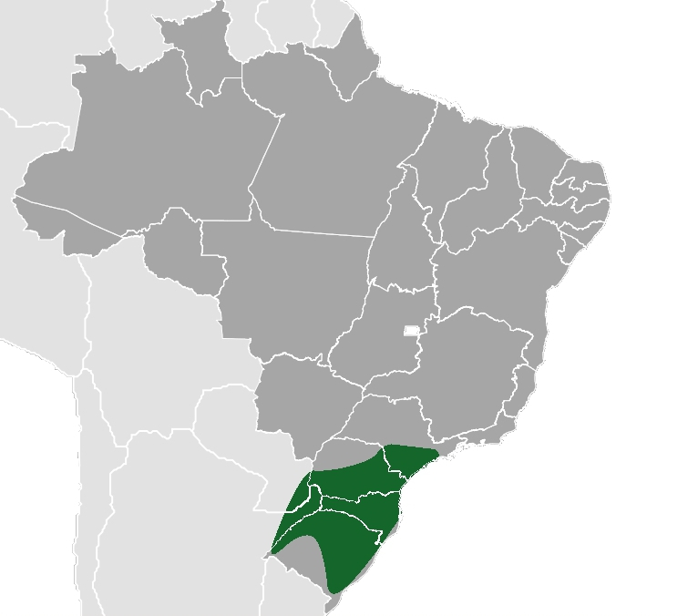 Habitat of Azure Jay.